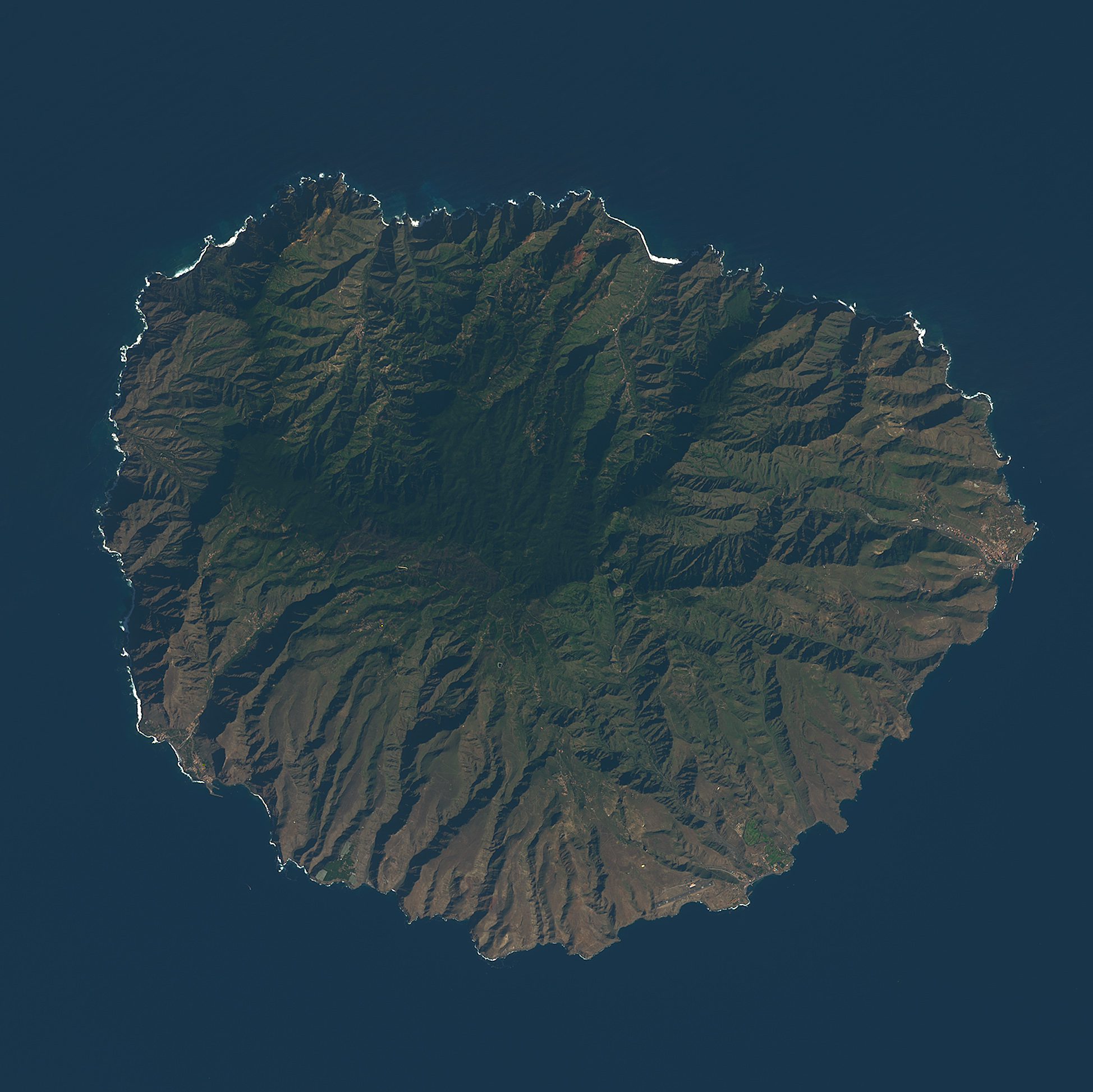 Observational Data courtesy of Landsat 8 satellite (Bands: 2, 3, 4, 8) & USGS. Data processed by Paul Quast. Data Specifications: Coordinates: 28.9421, -17.9139. Acquired: 19-May-2016 (Entity ID: LC82080402015365LGN00, Path: 208, Row: 40). Features of interest: La Palma Island [Middle]. Roque de los Muchachos Observatory (La Palma) [Middle]. Telescopio Nazionale Galileo (La Palma) [Middle]. Grand Telescopio Canarias (La Palma) [Middle]. MAGIC Telescopes (La Palma) [Middle]. Observatorio Astrofísico (La Palma) [Middle]. La Gomera Island [Bottom-Right].